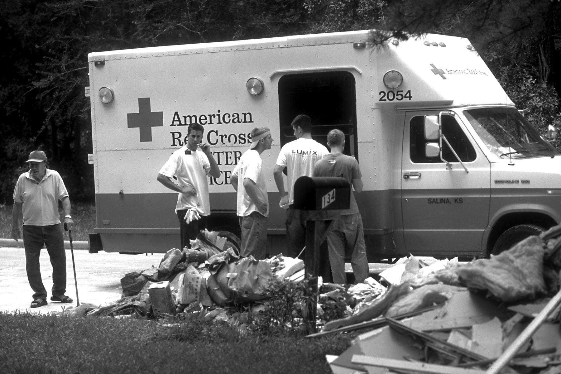 The American Red Cross assists flood victims following Tropical Storm Allison